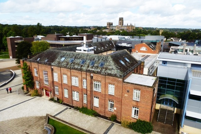 View from the 4th floor of the Calman centre